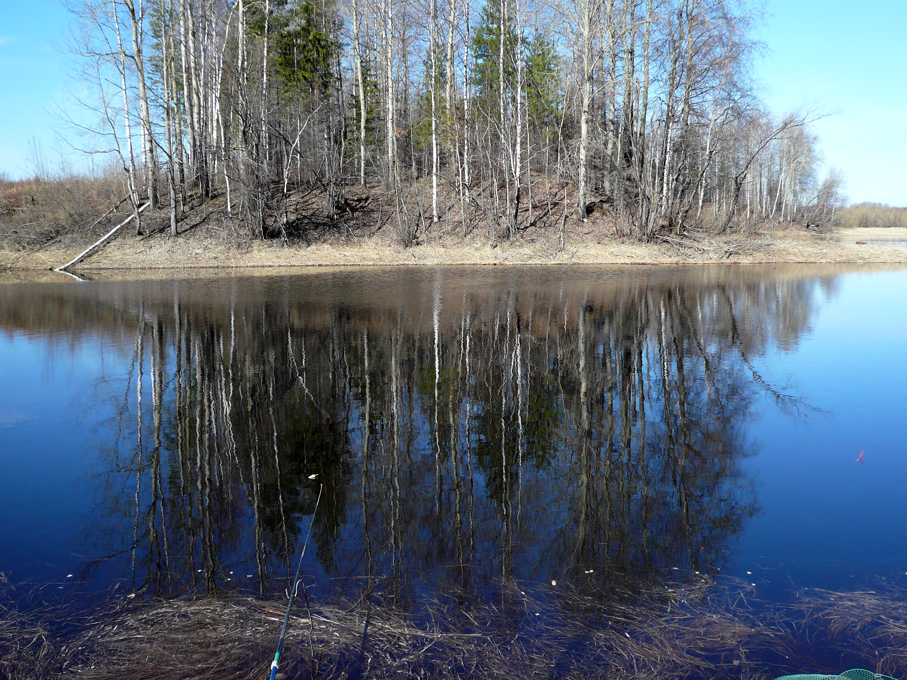 Природа в окрестностях Ханты-Мансийска